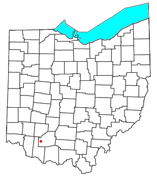 Locator map of the unincorporated community of Pricetown in Highland County, Ohio, United States.